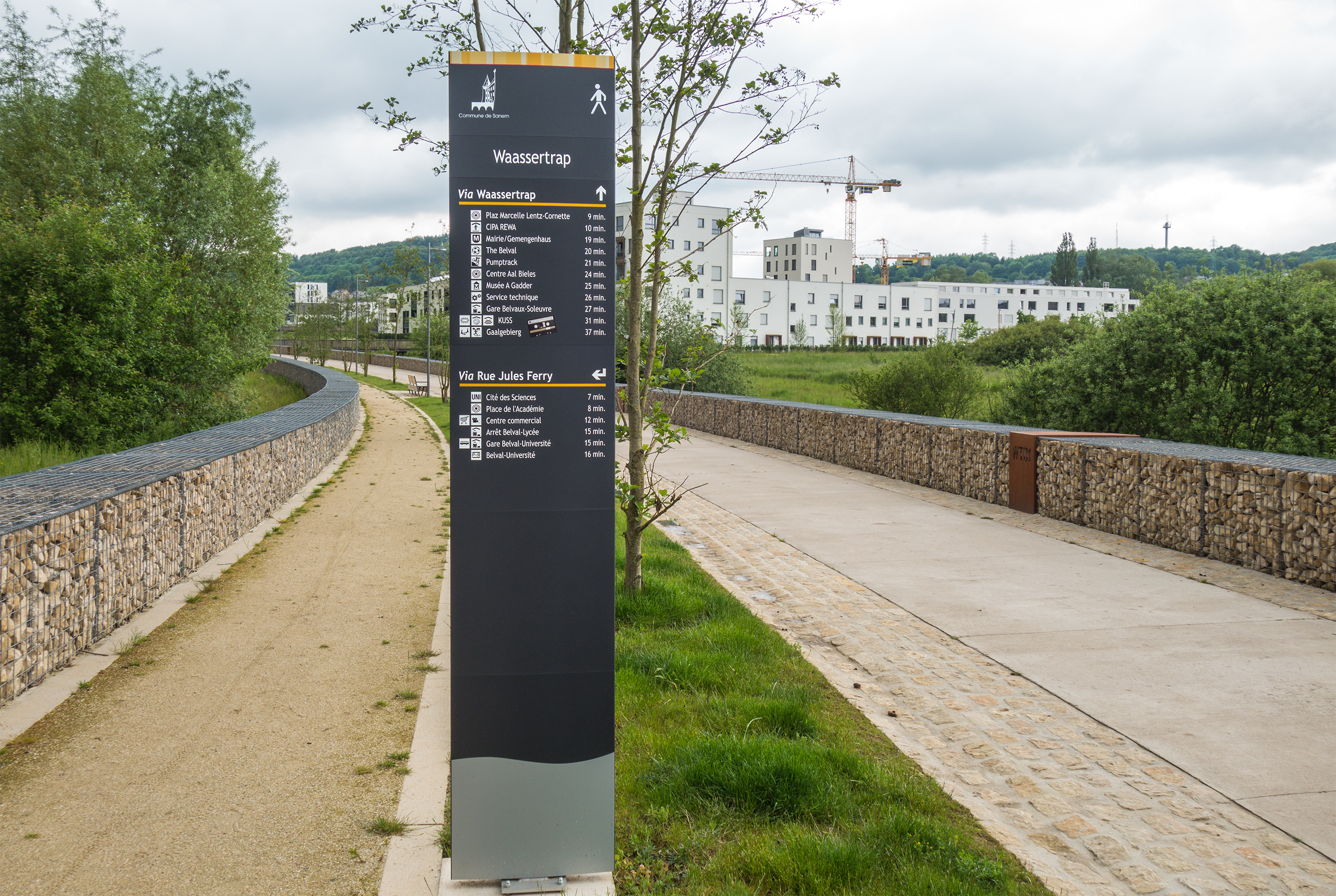 The "Waassertrap" (means water stair) is a part of the Belval park. The buildings in the background are part of a new residential allotment in Belvaux (municipality of Sanem).